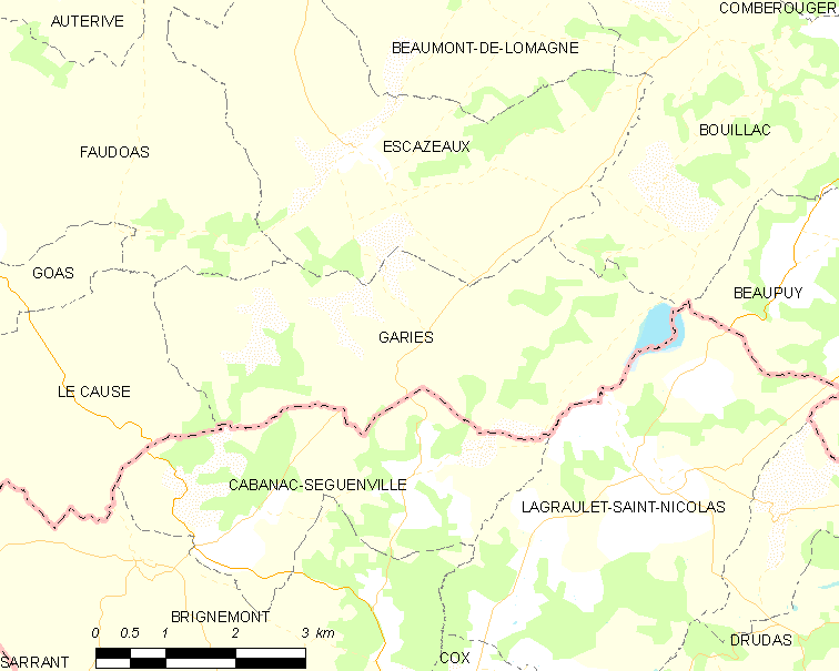 Map of French municipality Gariès